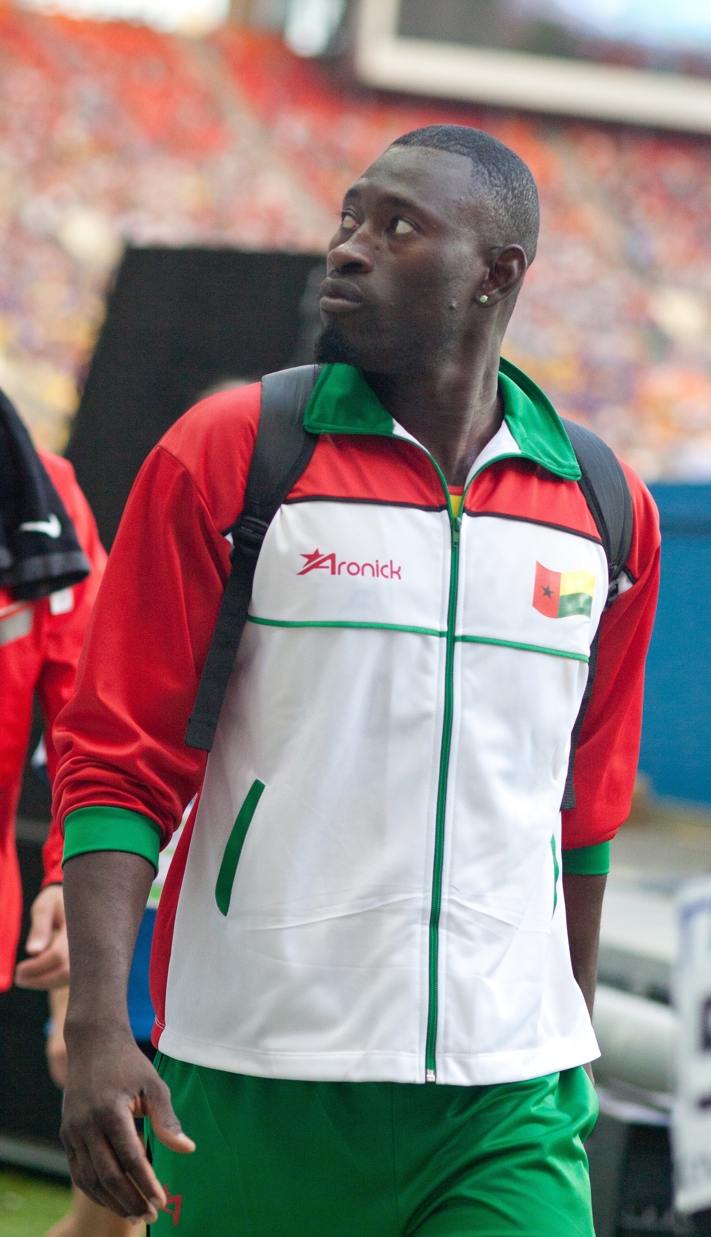 Holder da Silva during 2013 World Championships in Athletics in Moscow.